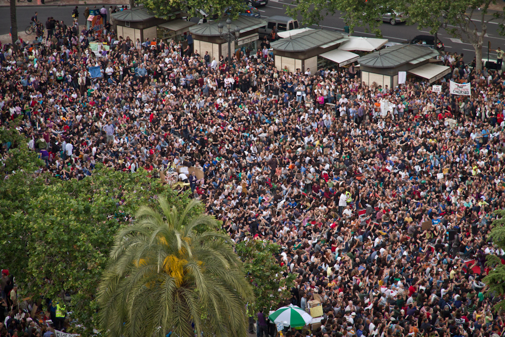 "SPANISH REVOLUTION" & "15 Movement" photography in the city of Valencia, popular Assembly on 19 May 2011. You can use, share, download and spread this picture as you want. If you need a higher quality copy do not hesitate to apply. Street photography only for cultural purposes. If you want more information about this image and their rights, please email the author. Check out "Creative Commons" license for details. Any use of this photograph should include in a readable way, the following information about the author: ©Adolfo Senabre - .es